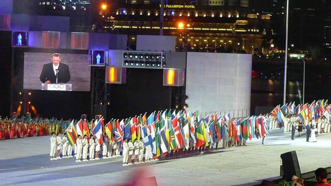 Opening Ceremony of Singapore YOG 2010